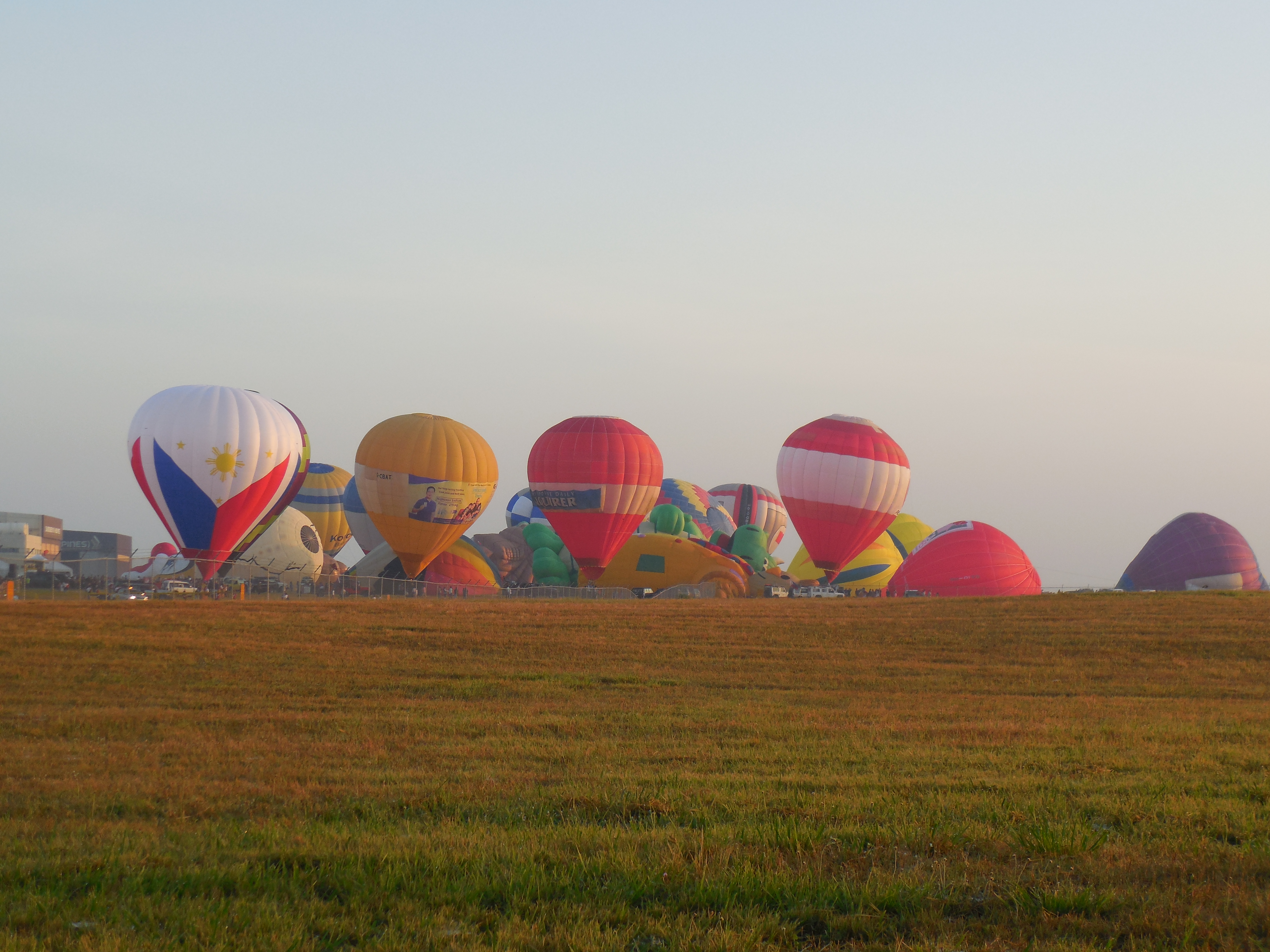 Hot air balloons inflating in preparation for take off at Clark Freeport Zone during the 20th Philippine International Hot Air Balloon Fiesta from February 12-14, 2016.